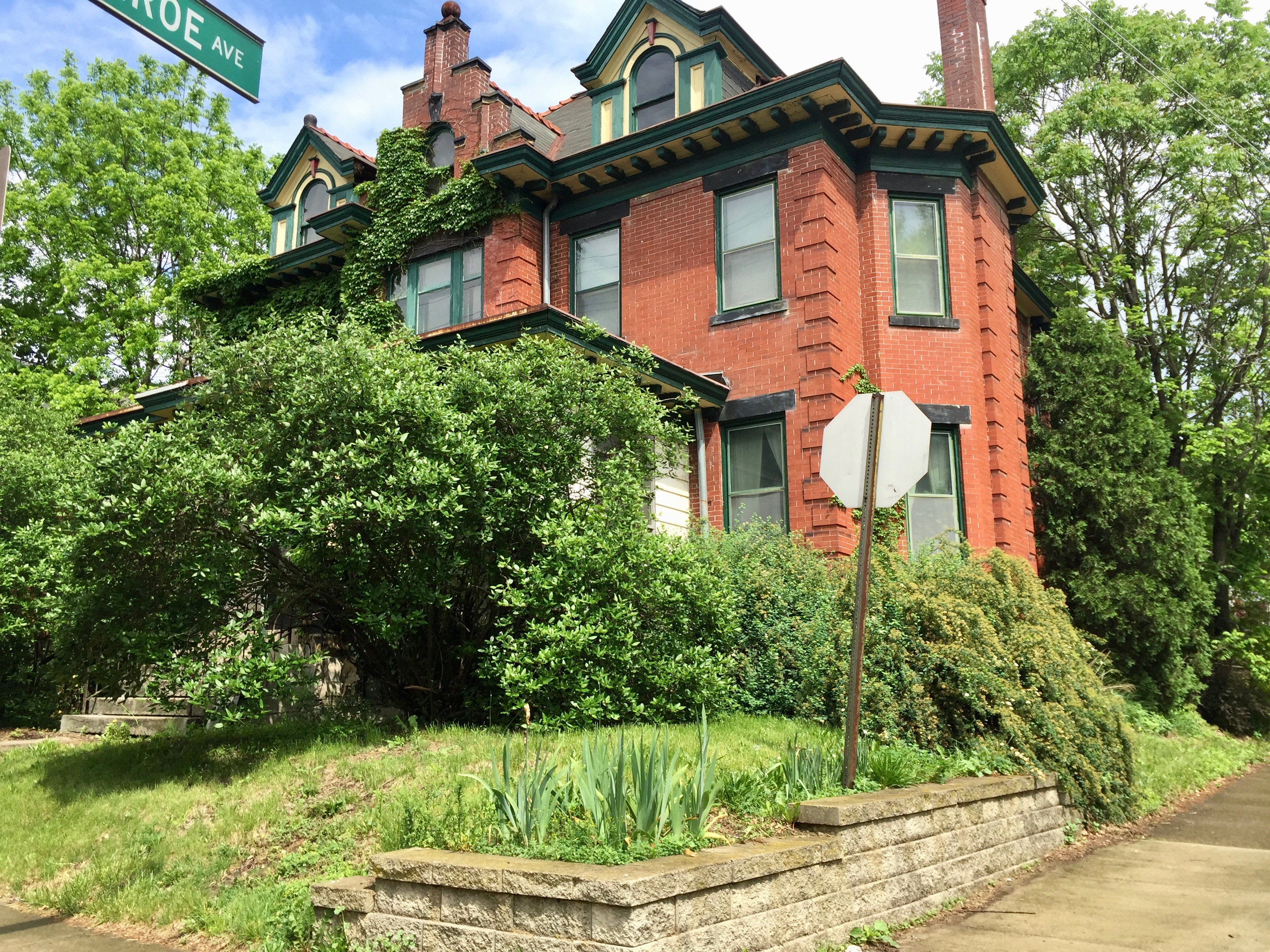 Image taken in Columbus, Ohio, by User:W lemay (Warren LeMay). May require further categorization.